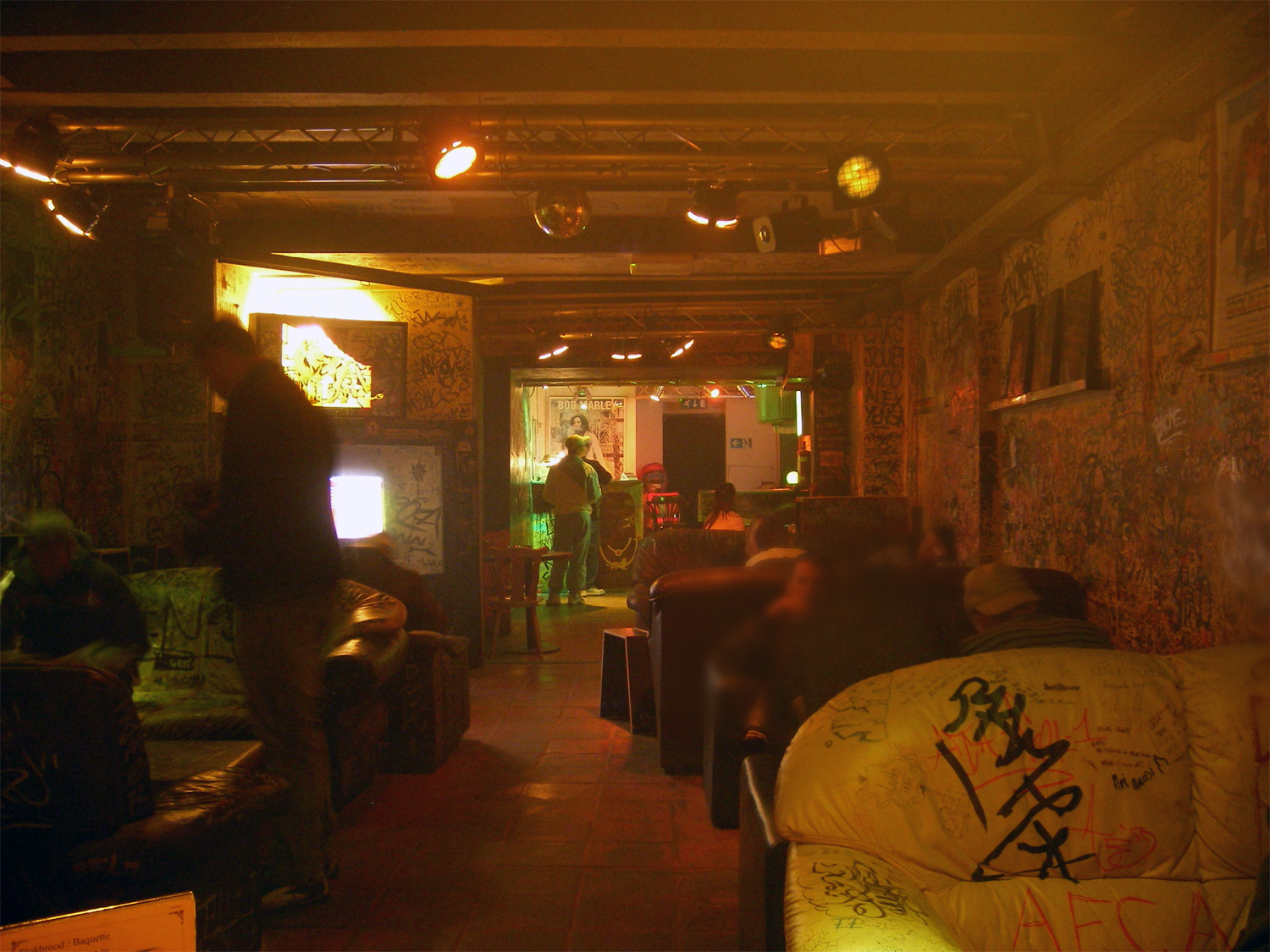 A coffeeshop downstair in Maastricht